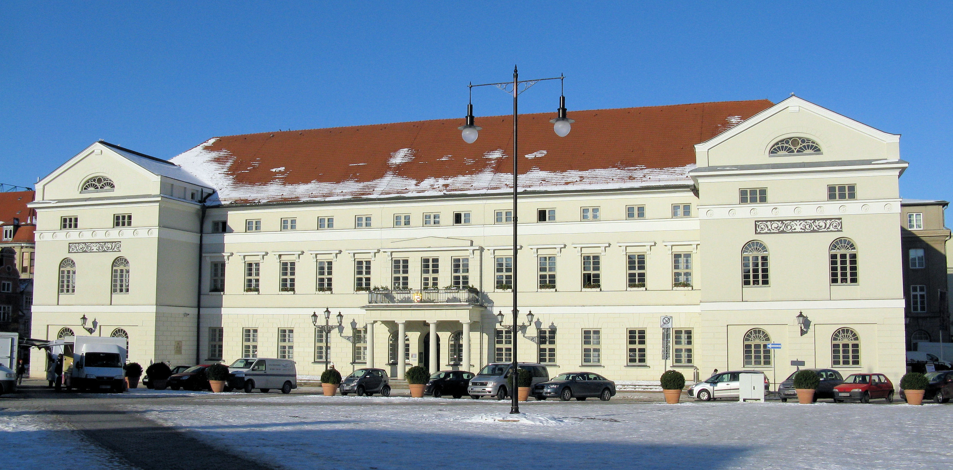 Town hall in Wismar, Mecklenburg-Vorpommern, Germany